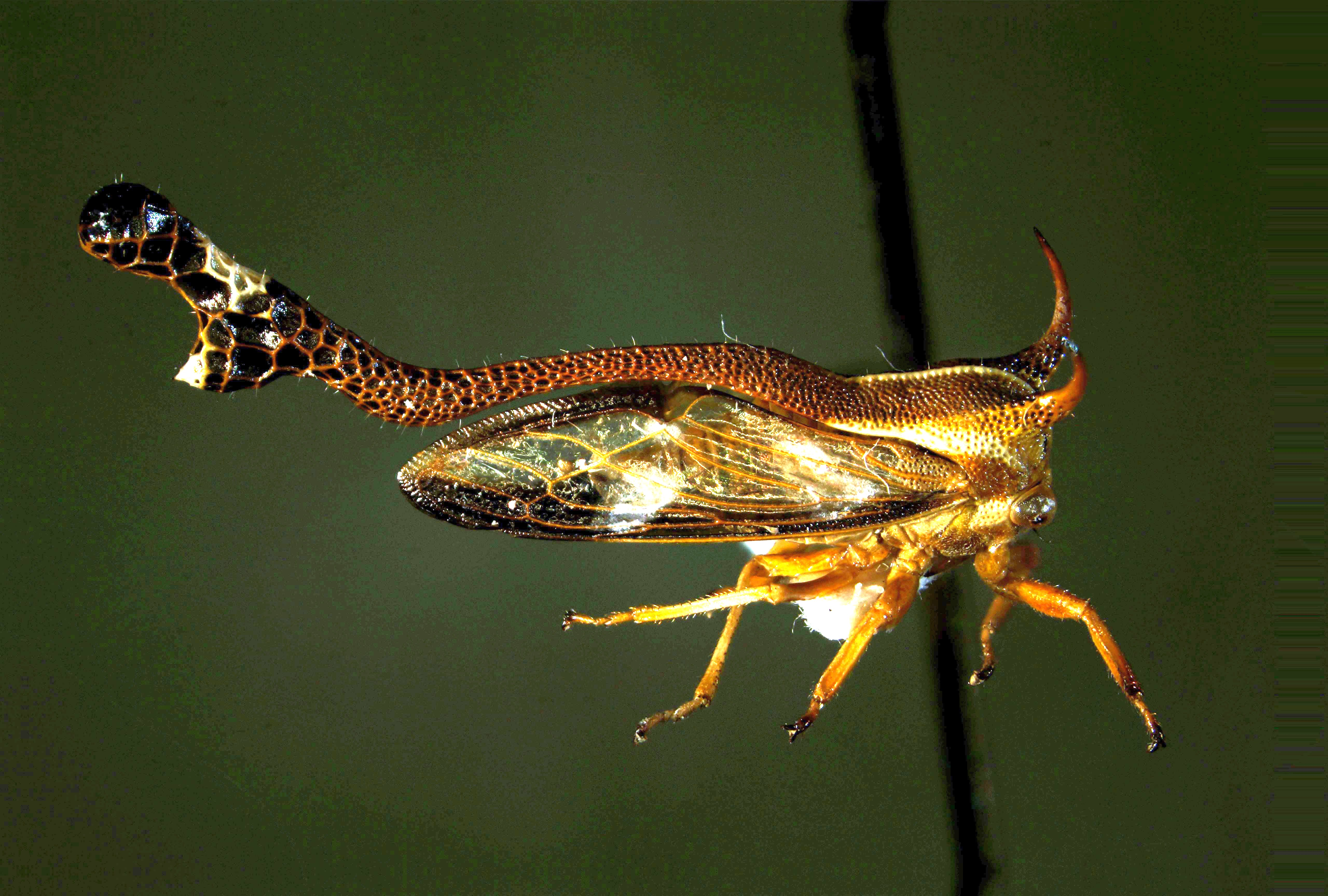 Heteronotus delineatus Walkeer, 1858, von lateral (Membracidae, Heteronotinae), aus Panguana, Peru